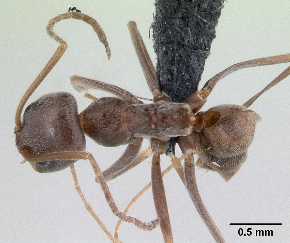 Dorsal view of ant Dorymyrmex brunneus specimen casent0192698.